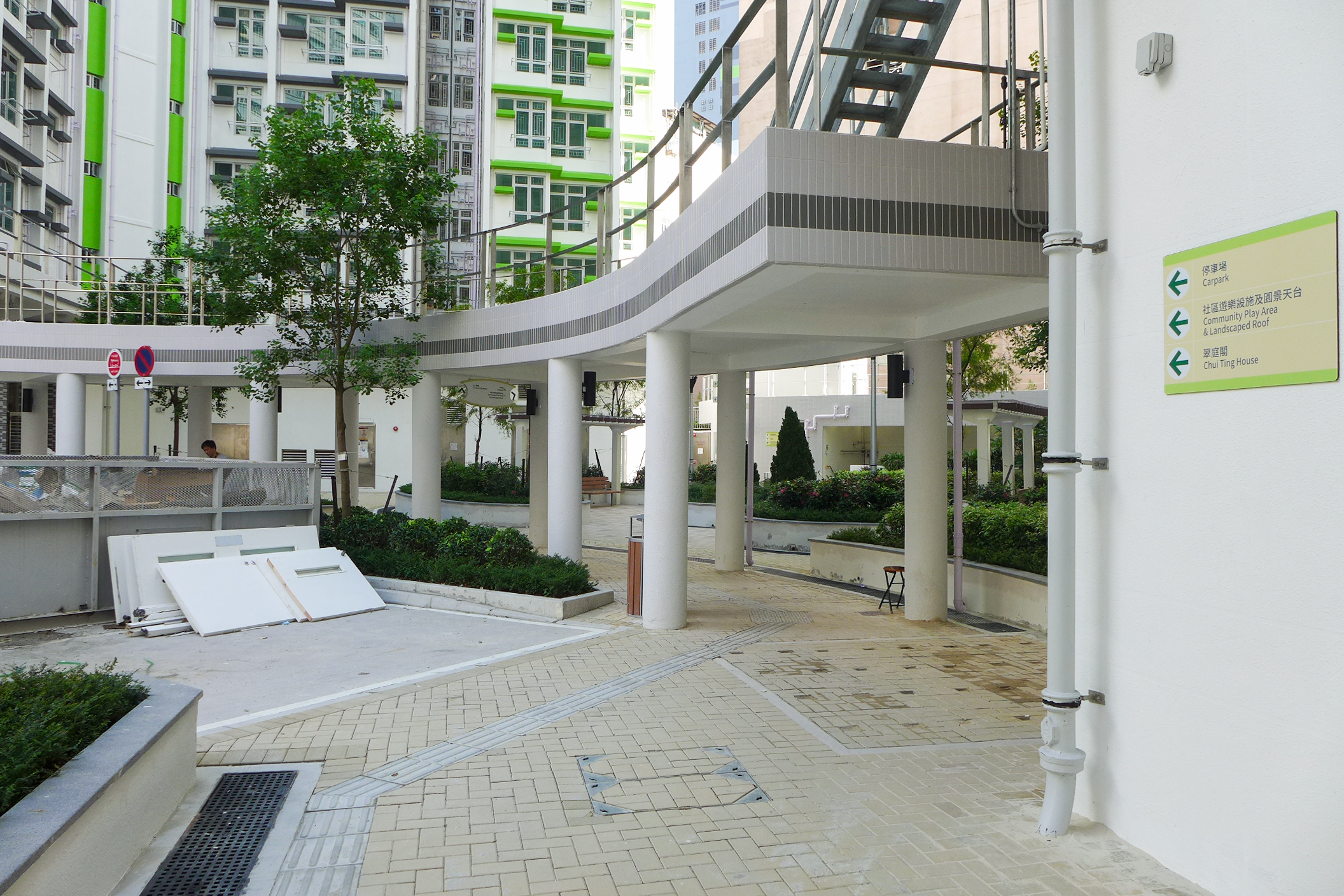 Sheung Chui Court Coverway